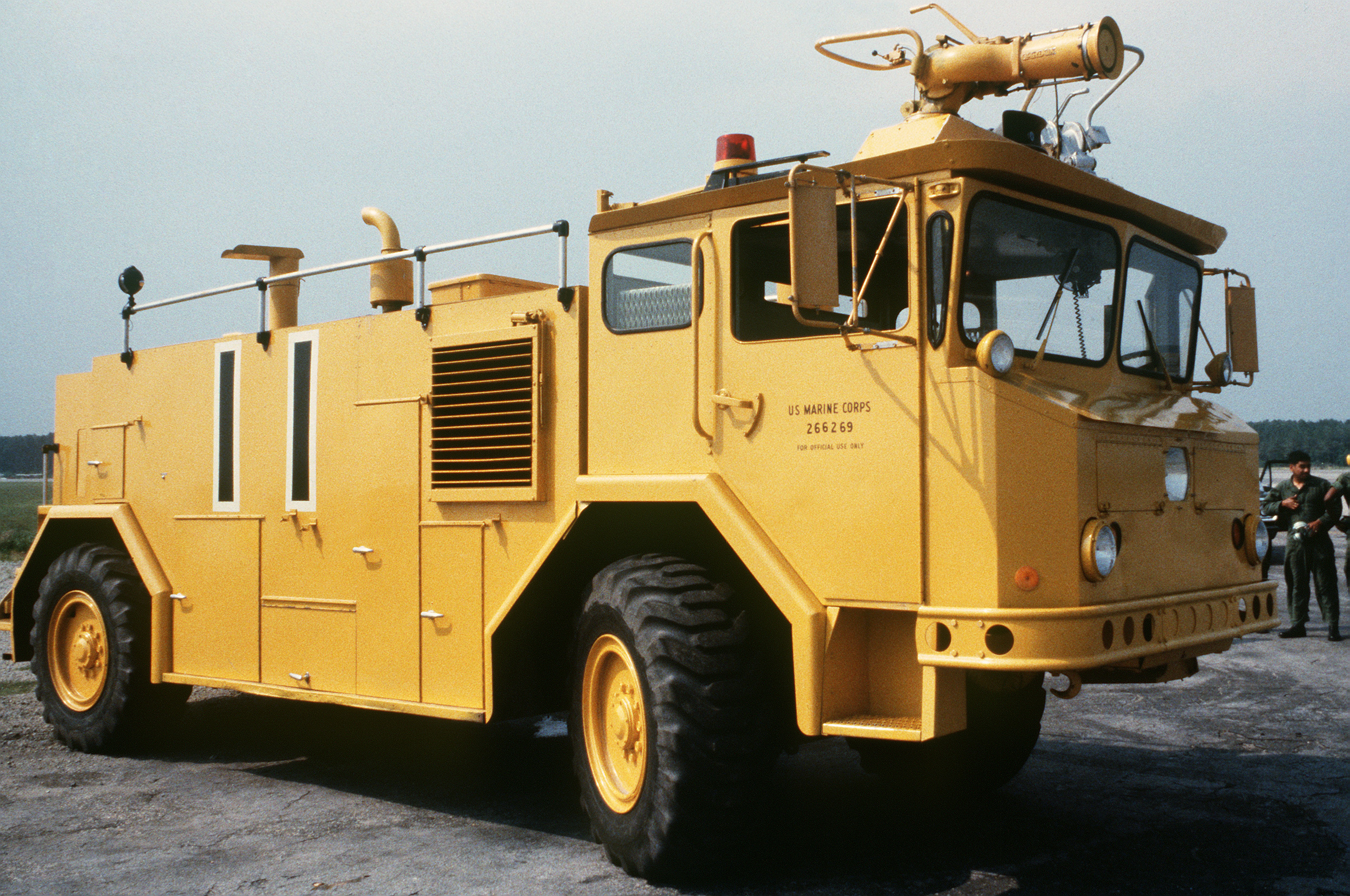 An MB-1 firetruck.